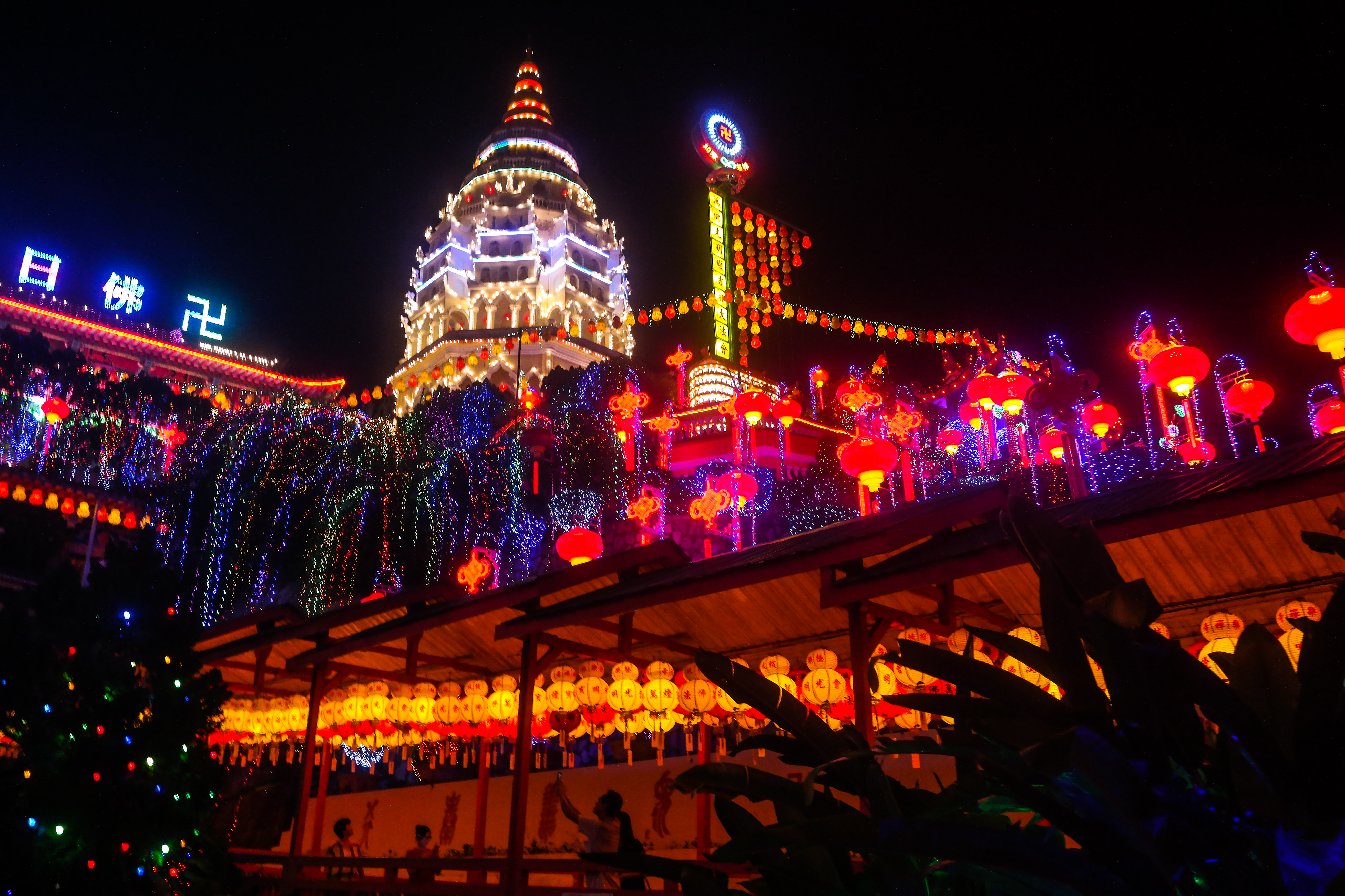 Kek Lok Si Temple